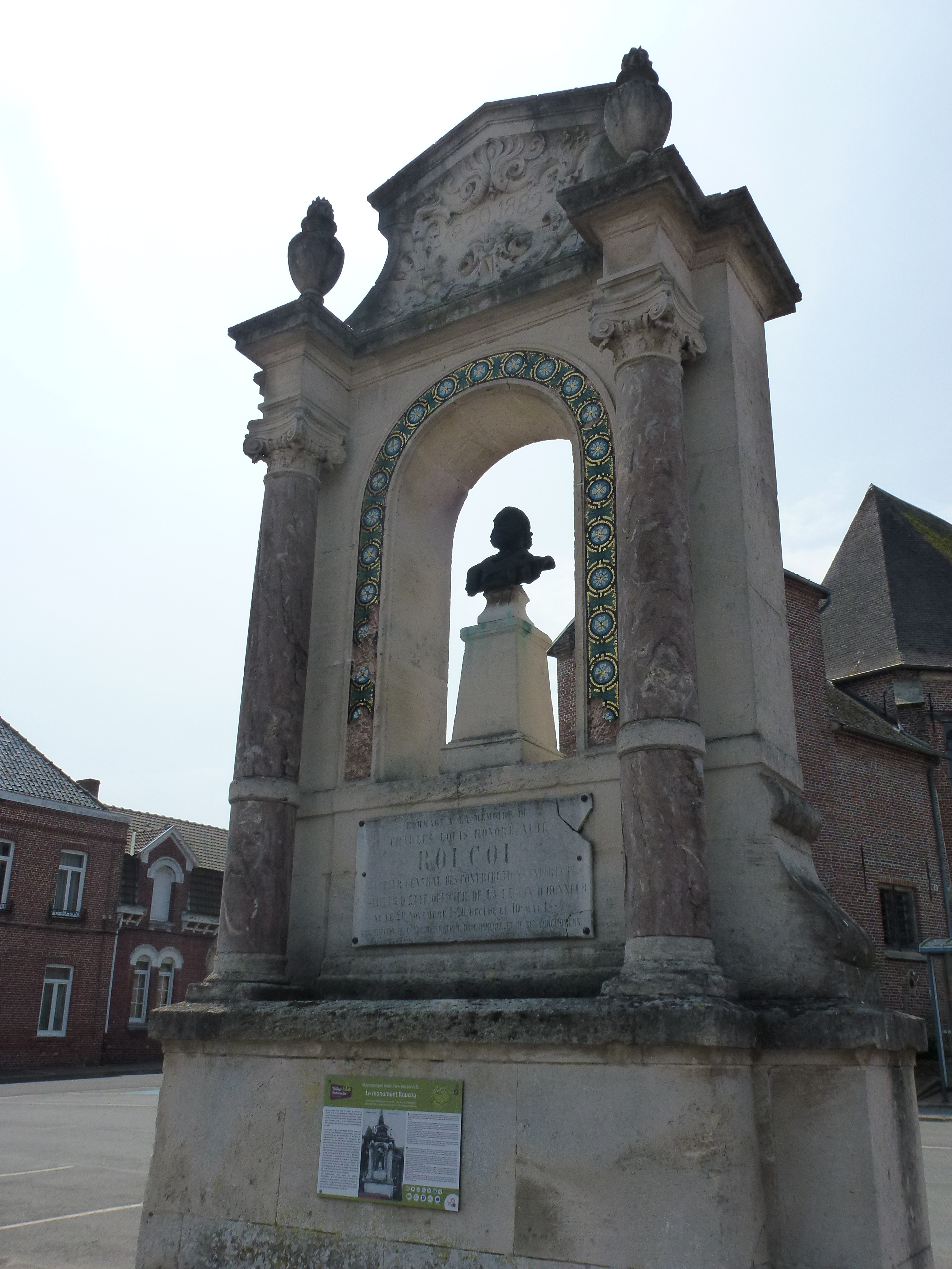 Steenbecque (Nord, Fr) le monument Roucou